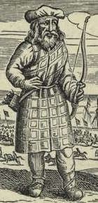 A cropped version of File:Scottish soldiers in service of Gustavus Adolphus, 1631.jpeg.